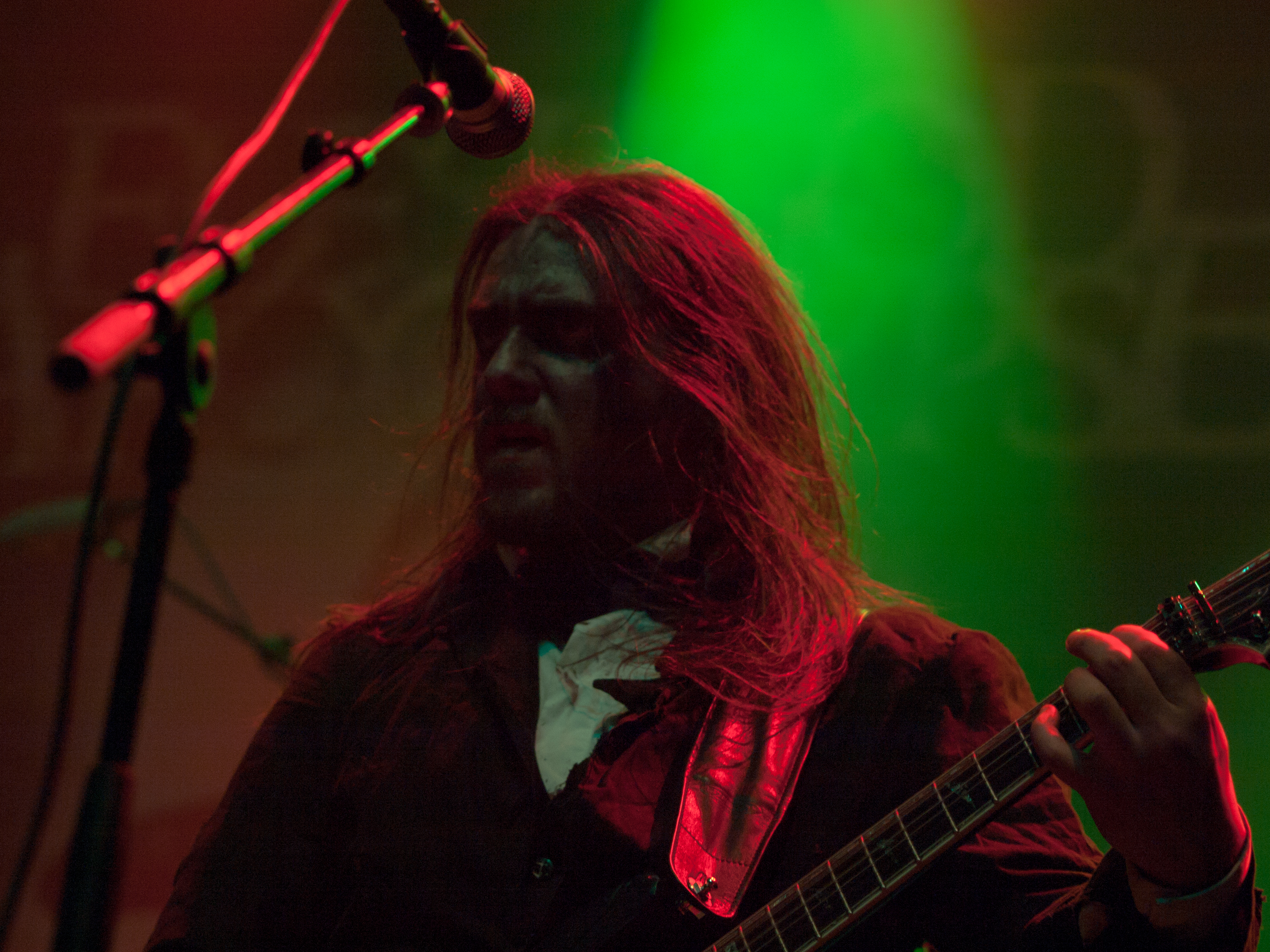 Fleshgod Apocalypse live at Finnish Metal Expo 2012 in Helsinki